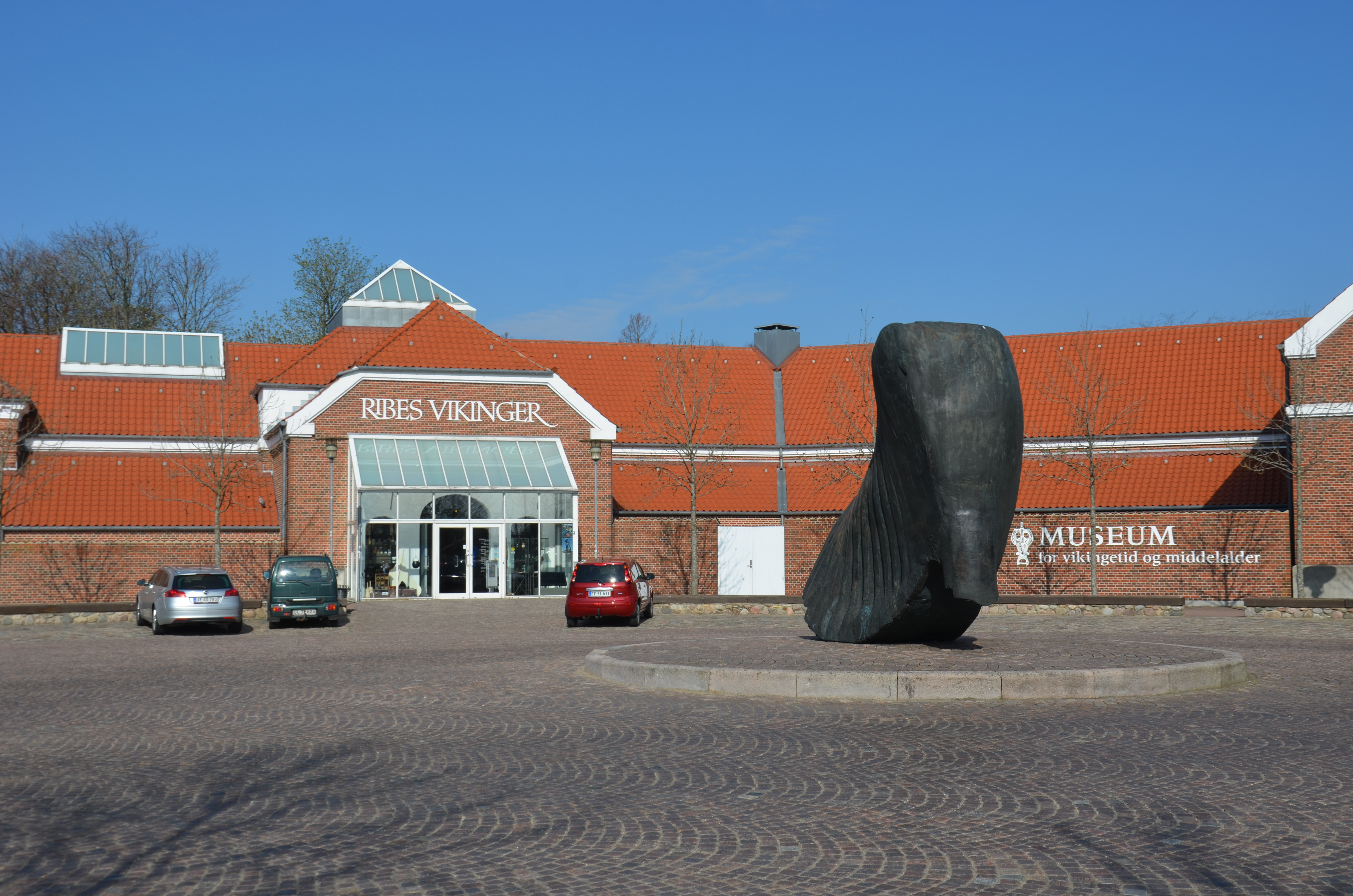 Museet Ribes Vikingar, Ribe